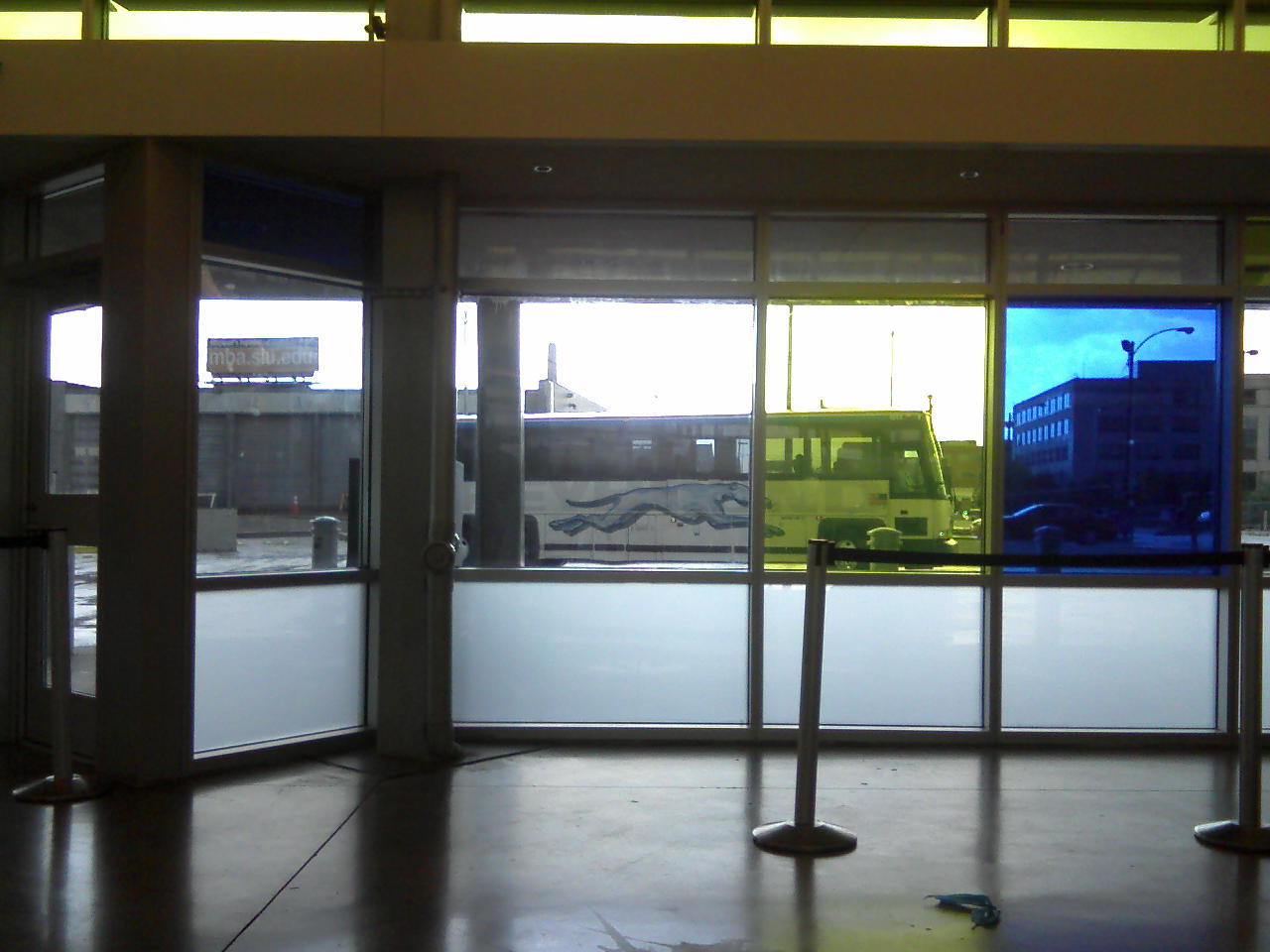 Inside a Greyhound Lines bus station in St. Louis the afternoon of 26 May 2010. The bus outside is stopping at another part of the station to pick up passengers for travel to Los Angeles.